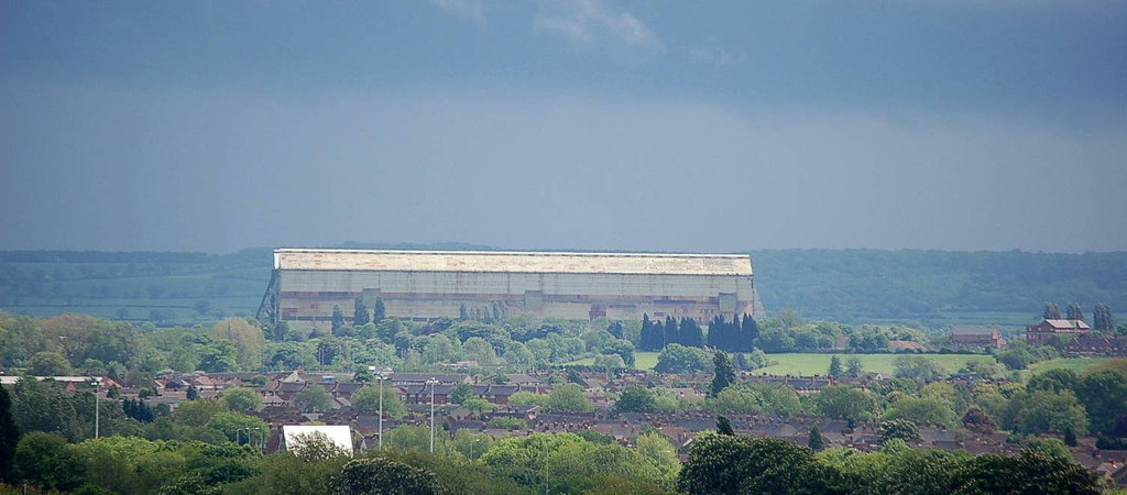 cardington hangars where they filmed the gotham city bits for Batman Begins...oh, and they also used to build airships!